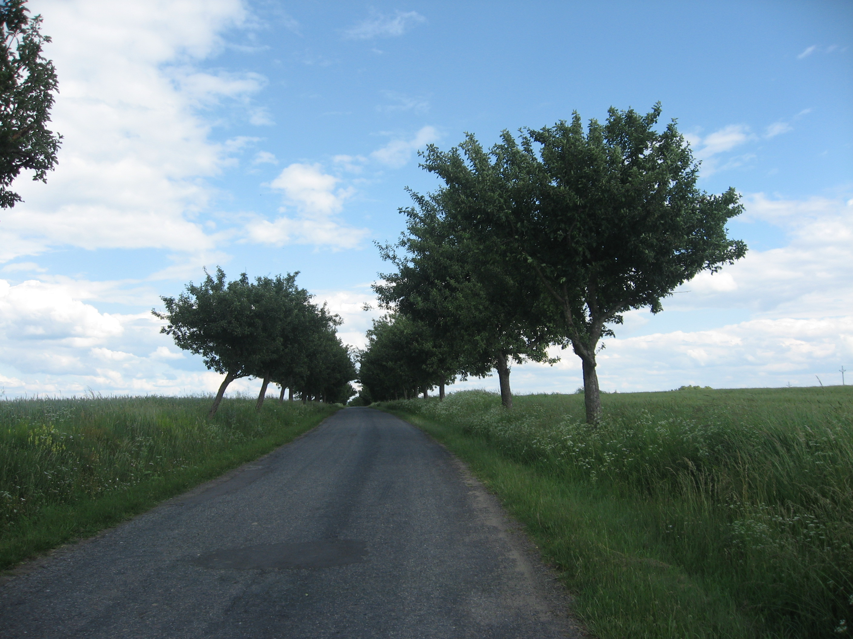 Avenue between Pozovice and Kamenná in Vysočina Region of the Czech Republic.